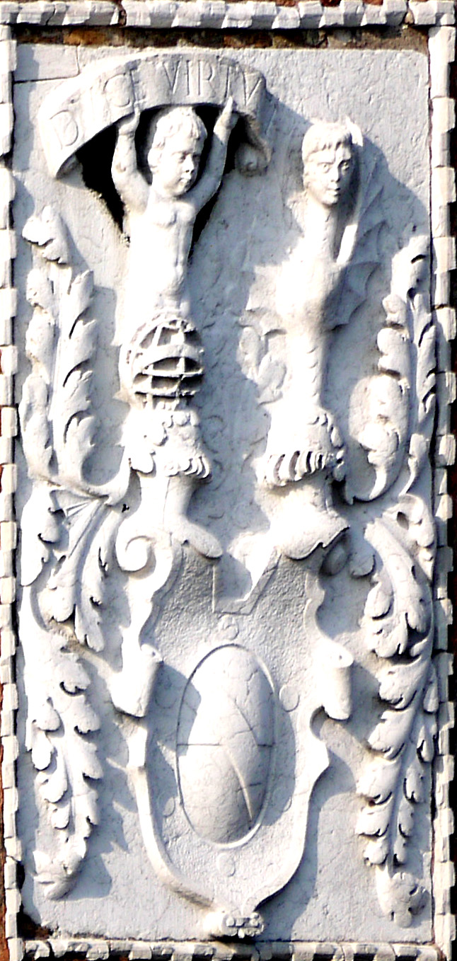 Mula Palace in Murano, coat of arms of the Salamon family